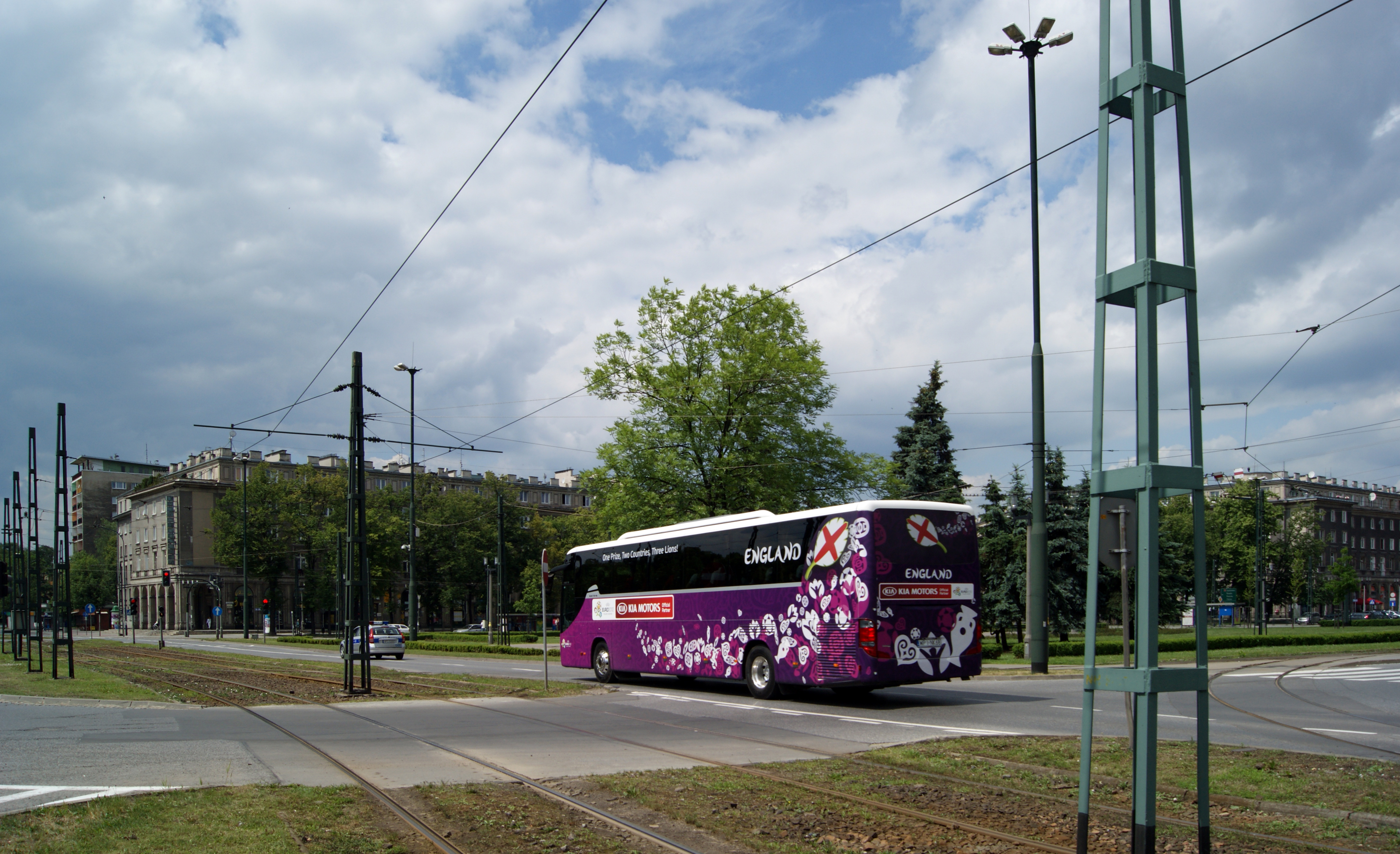 Central square, Nowa Huta, Kraków, Poland. Setra S 416 GT-HD/2 coach (reg. WPI NK68), built 2012, Raf Trans from Warsaw operator.